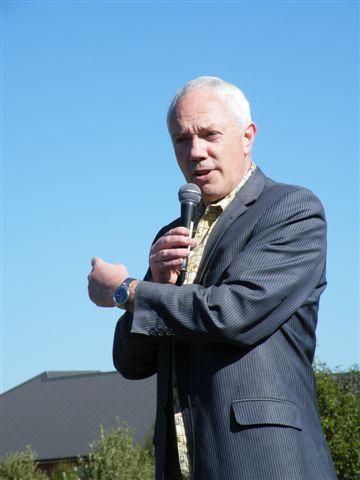 Bob Parker at the opening of the Hornby to Prebbleton rail trail